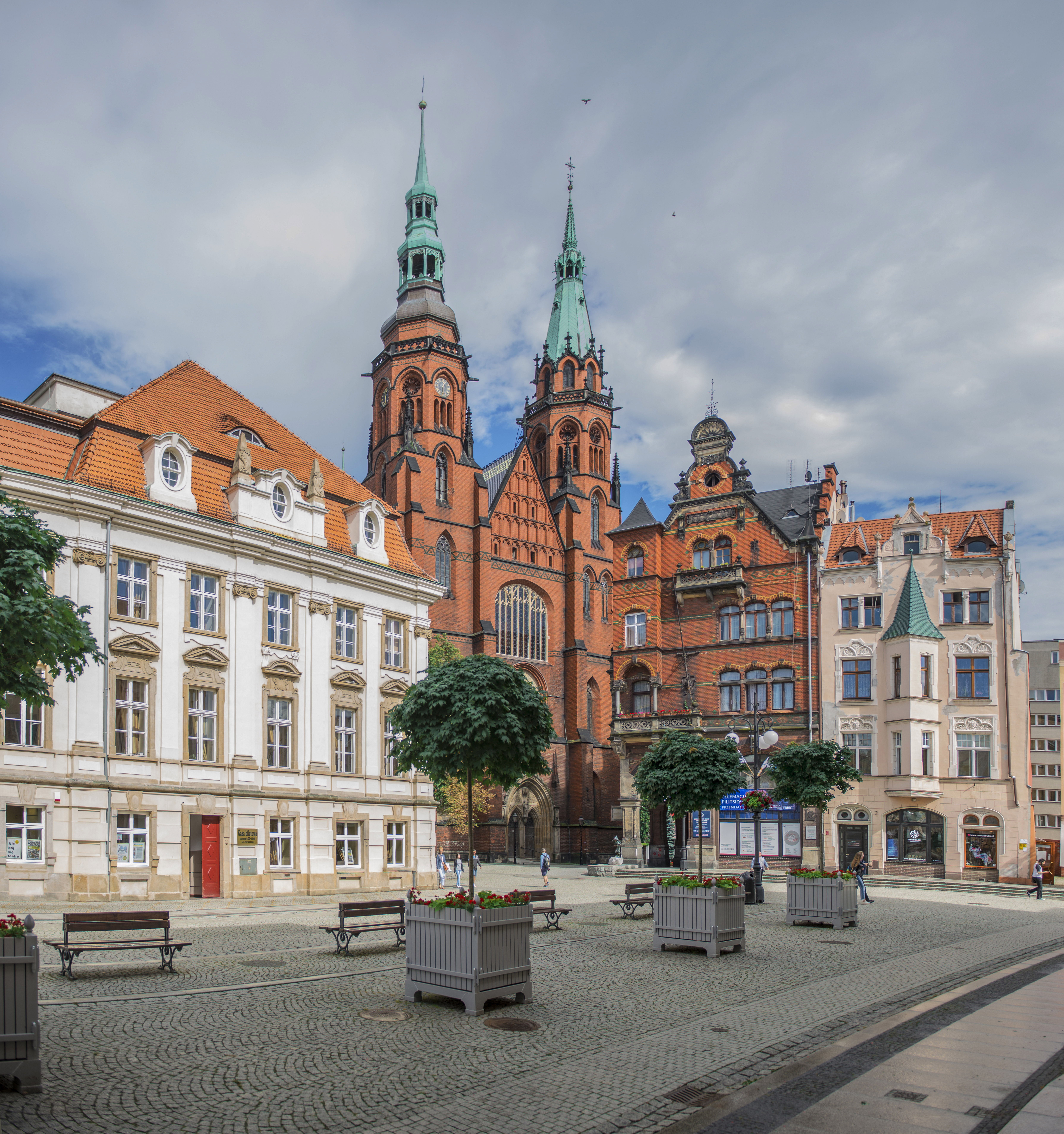 The Cathedral of Saints Peter and Paul